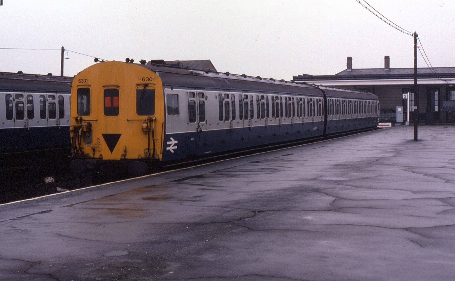 Between duties at the Surrey branch line terminus of Tattenham Corner. on 31 March 2-car 2EPB set 6301 having arrived on the 10:10 from Purley.